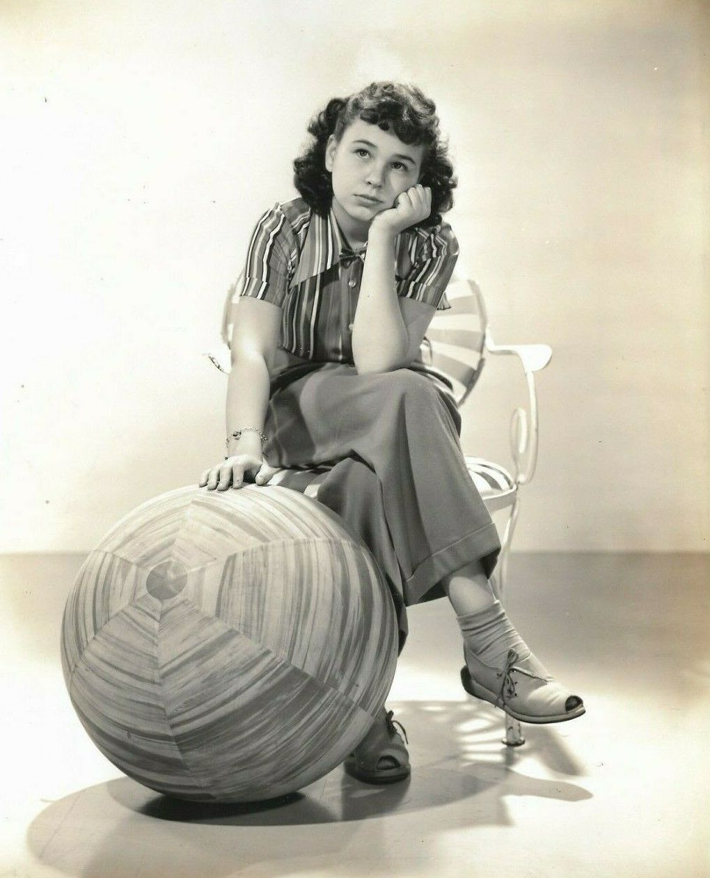 Portrait of actress Jane Withers with ball, 1930s